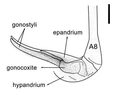 Miriholcorpa forcipata gen. et sp. nov., holotype CNU-MEC-NN-2012001. Line drawing of genitalia. Scale bar: 1 mm